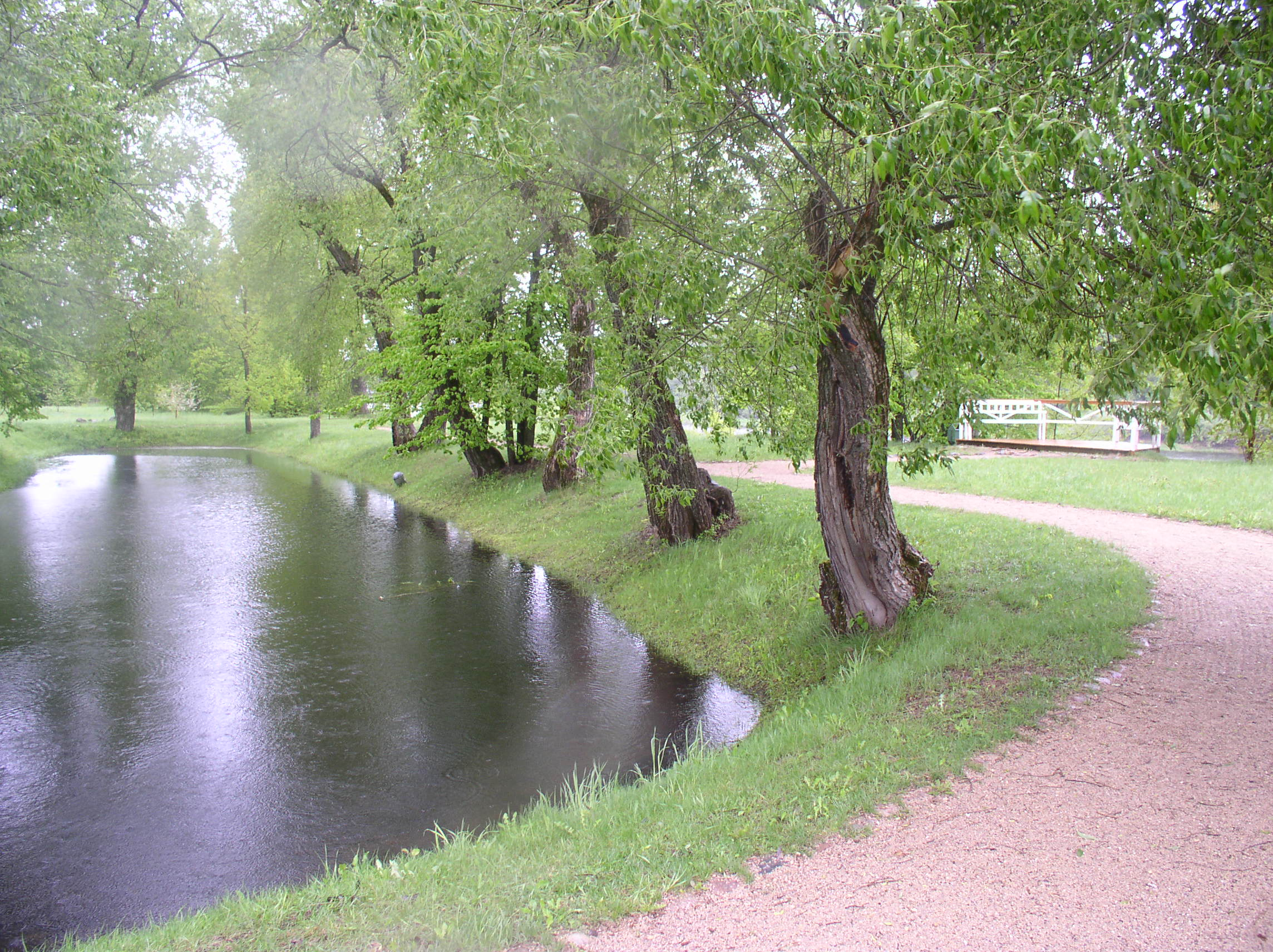 Manor of Ilya Repin. Zdrawneva, Belarus.